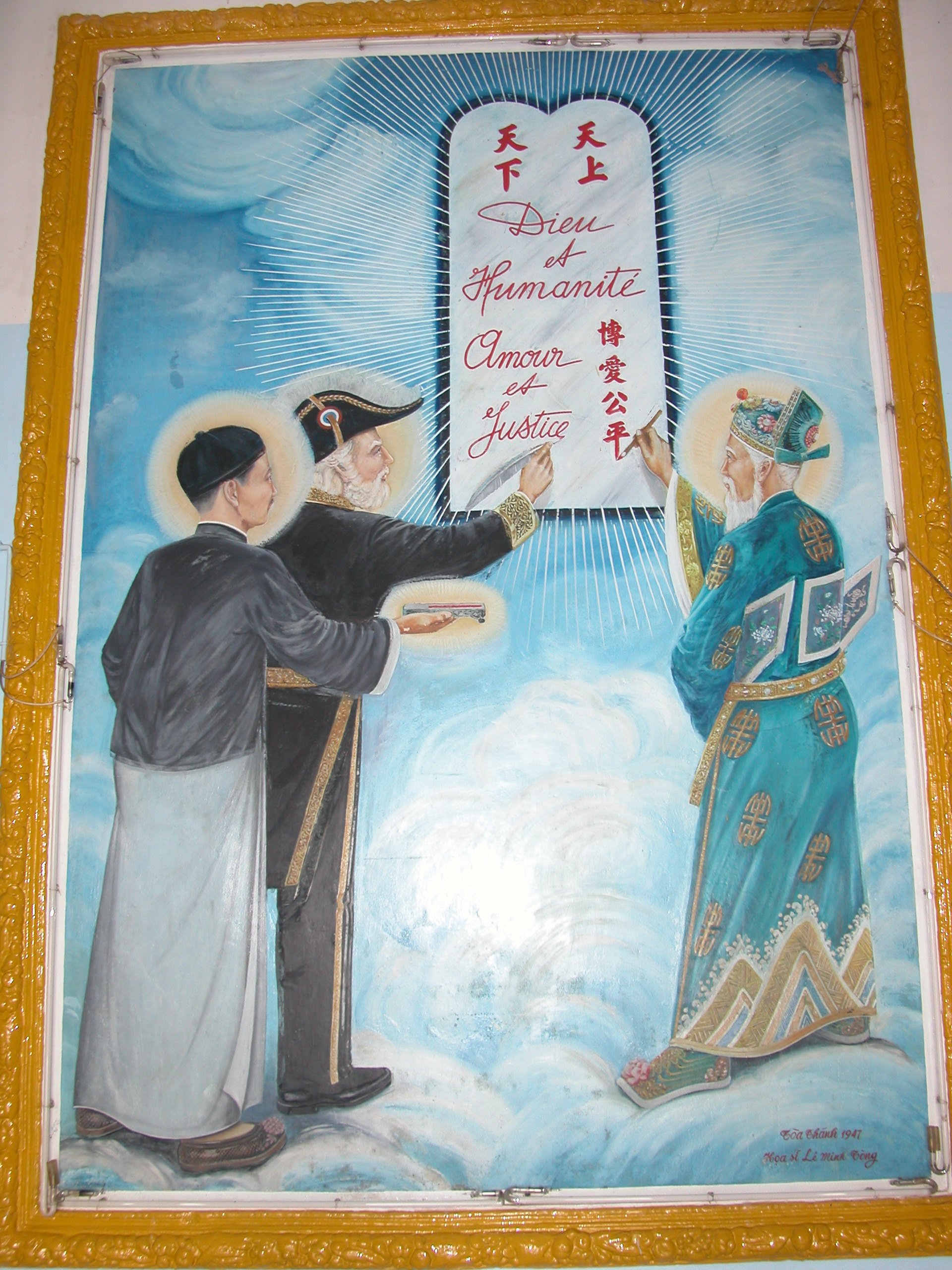 A painting inside the Tây Ninh Holy See depicts the three saints signing an accord between God and Humanity. From left to right: Sun Yat-sen, Victor Hugo and Nguyễn Bỉnh Khiêm.